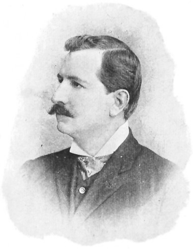 Cayetano Rodríguez Beltrán (1866-1939), Mexican writer.